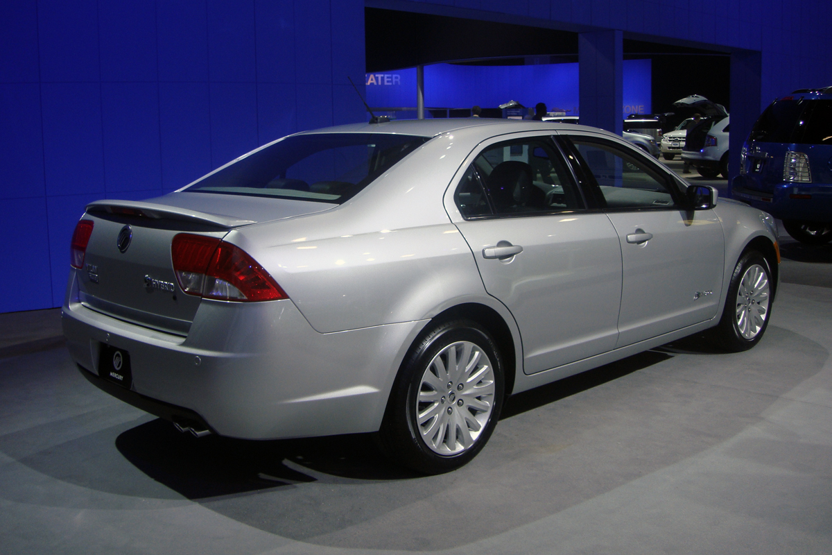 2010 Mercury Milan Hybrid at the 2010 Washington Auto Show